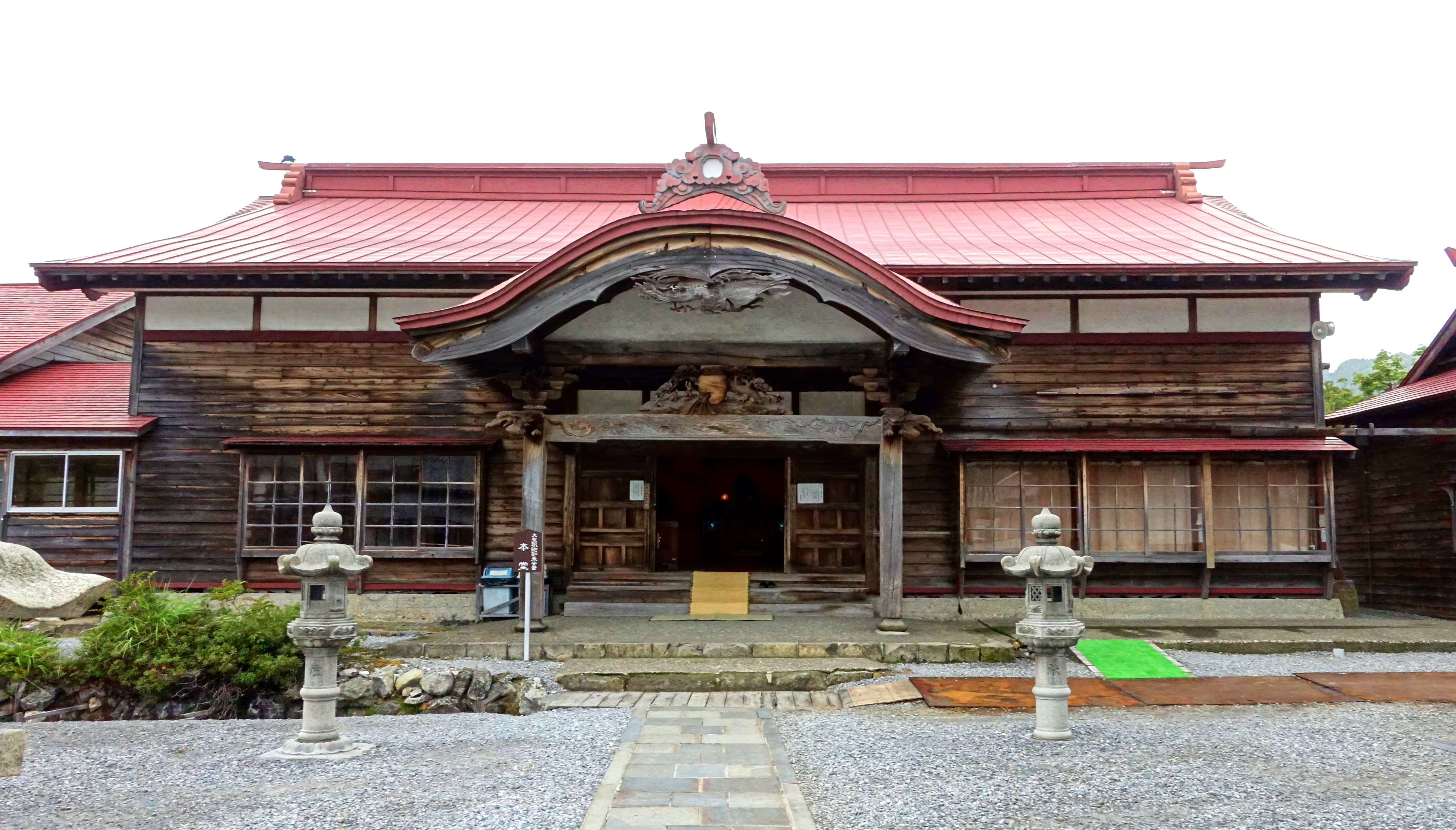 Hondo - Bodaiji, Mount Osore - Mutsu, Aomori, Japan.